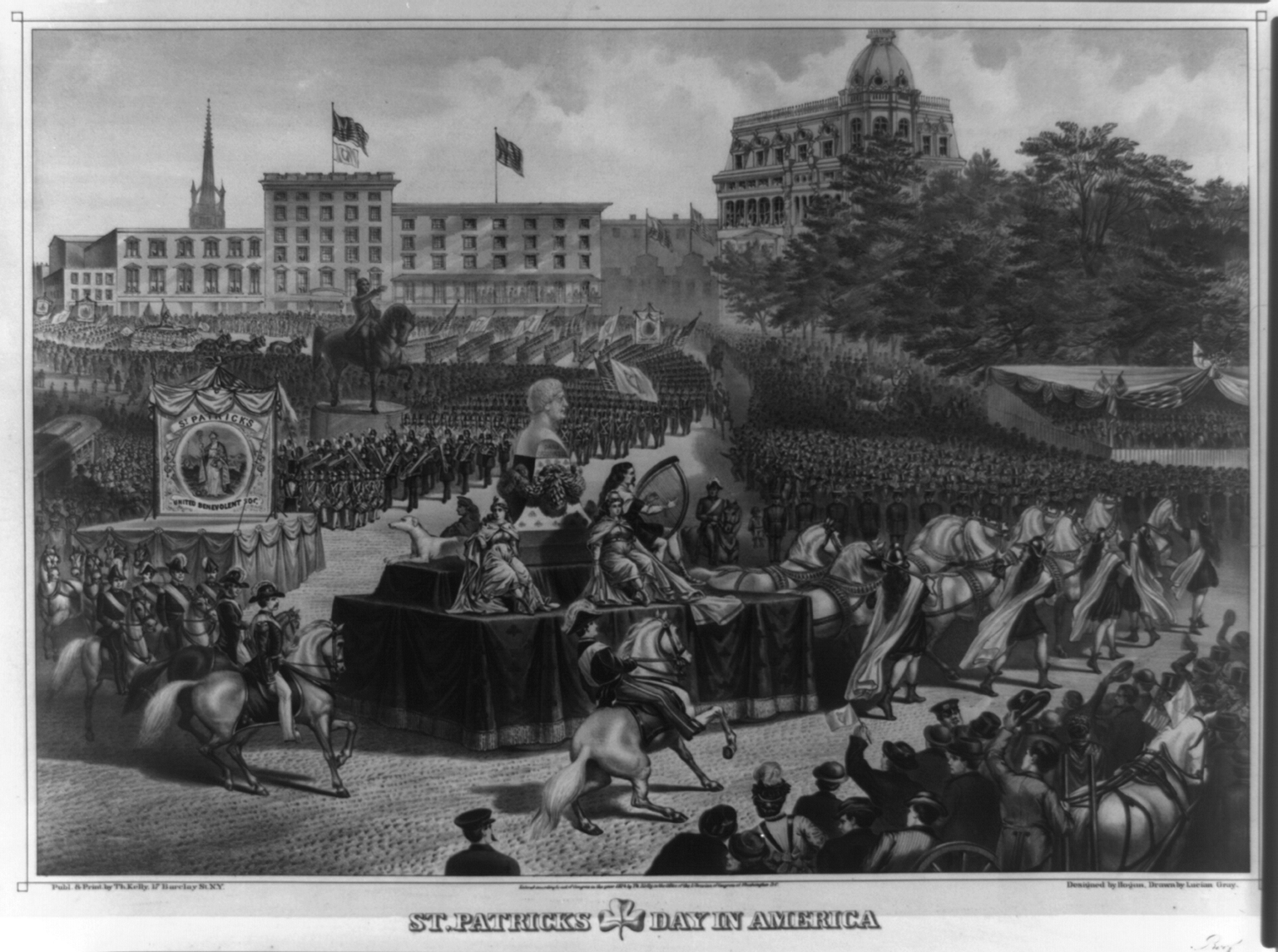 Print shows portion of a parade with float in the center bearing a bust of Daniel O'Connell, Saint Patrick's day in New York City, at Union Square with the German Savings Bank in the upper right corner and Trinity(?) Church in the background/designed by Hogan ; drawn by Lucian Gray.